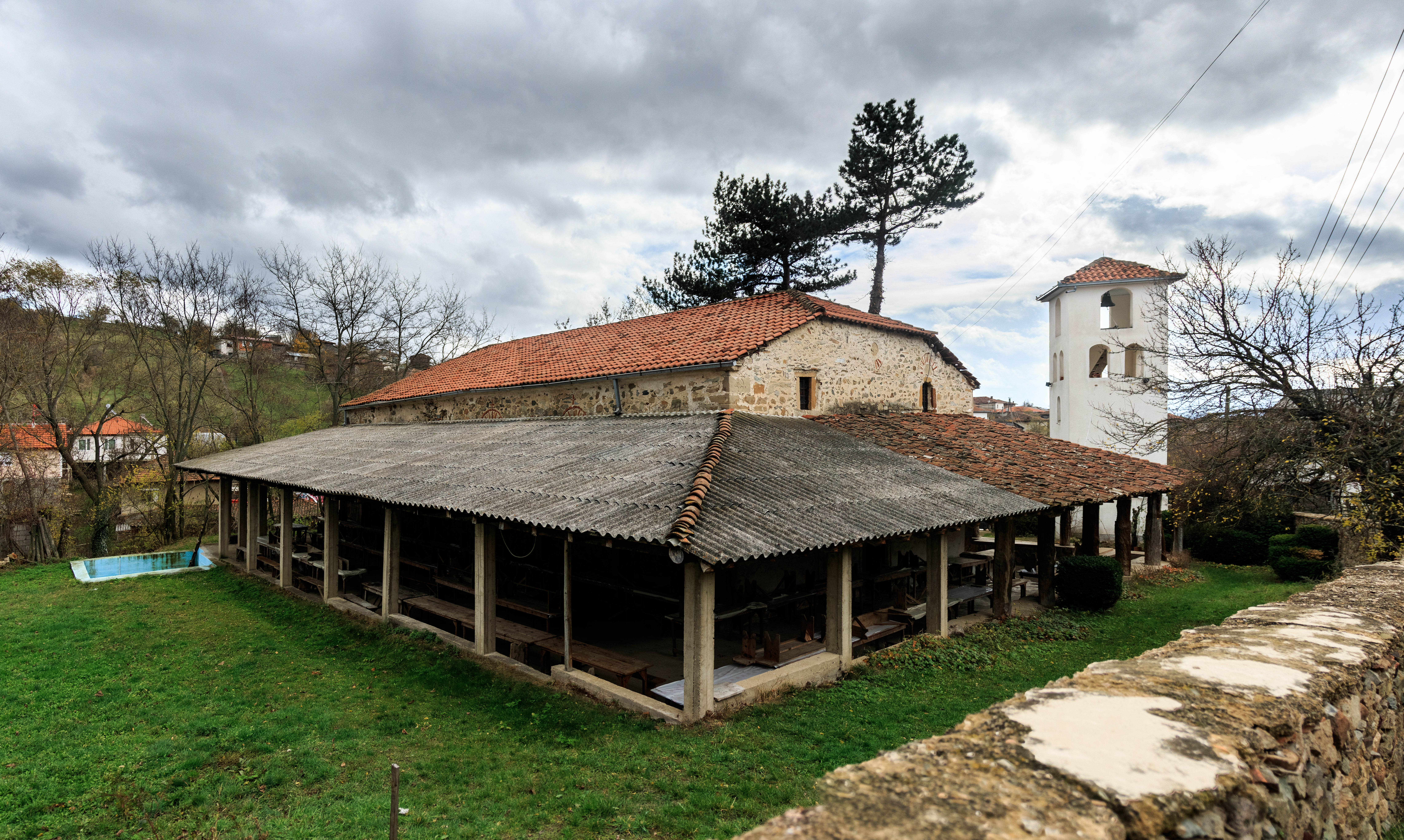 Dormition of the Theotokos Church in the village of Robovo, Maleševija, Macedonia